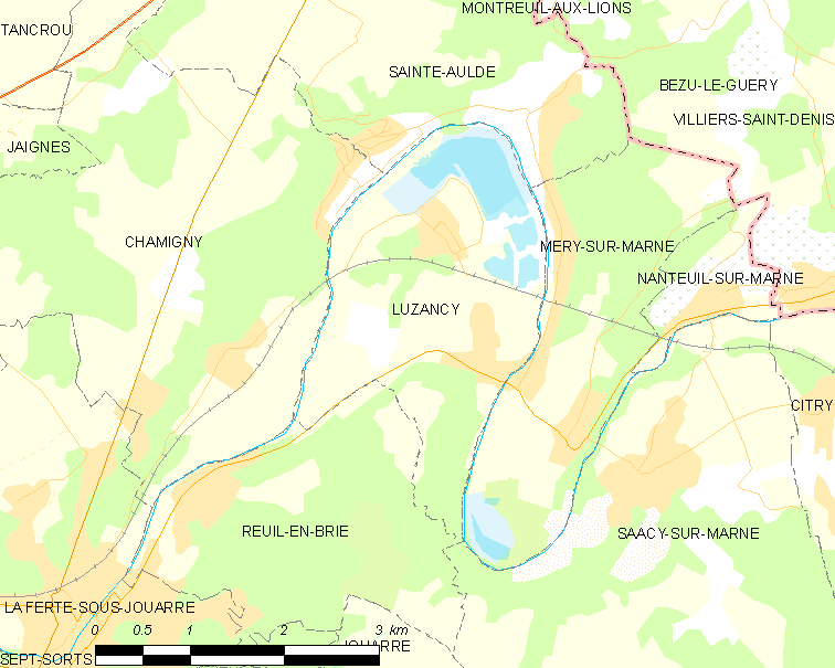 Map of French municipality Luzancy